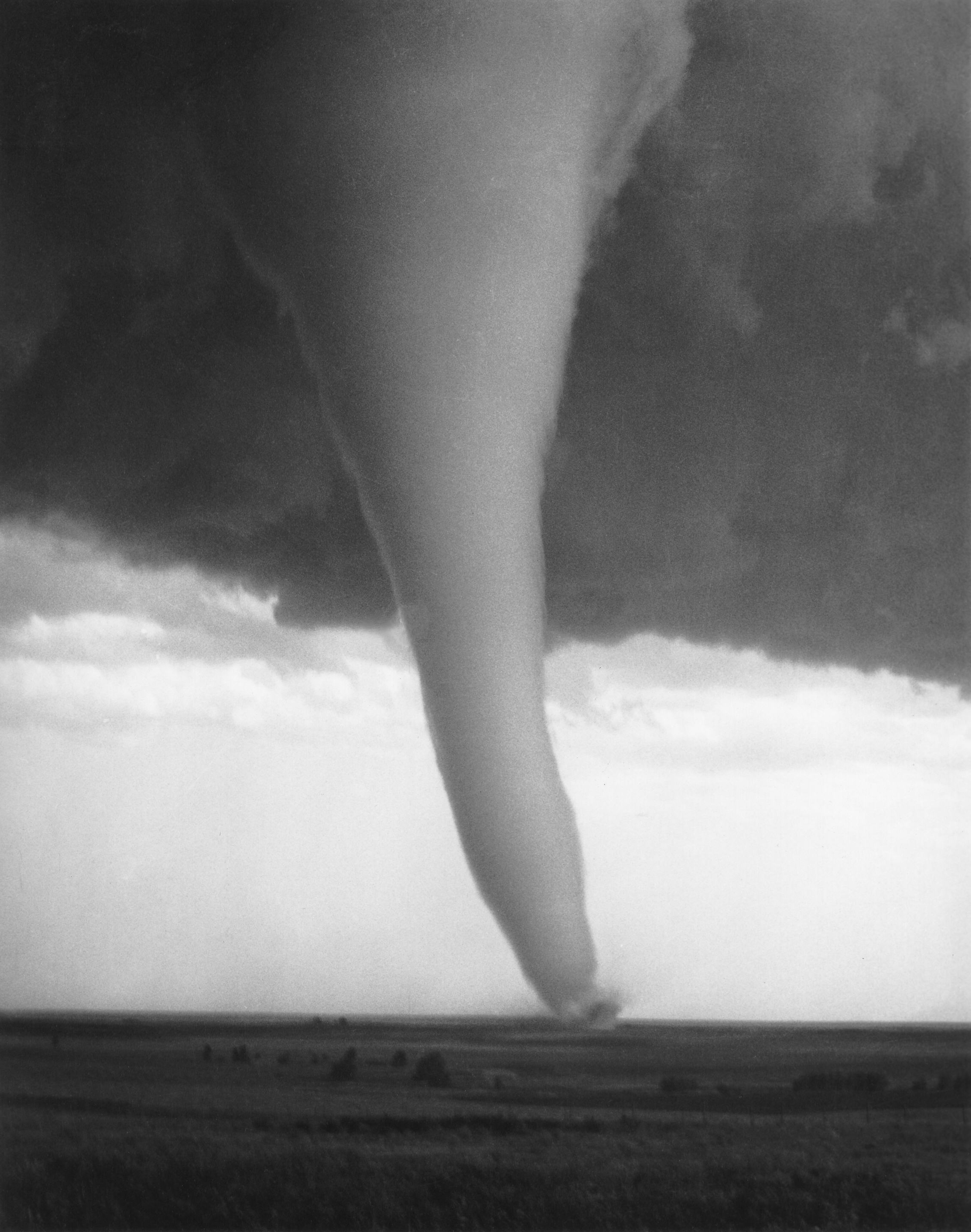 Tornado View, June 2, 1929, Hardtner, Kansas; Reprint from original negatives. Original image by Mamie Rathgeber; Copyright by Fay Rathgeber June 17, 1929